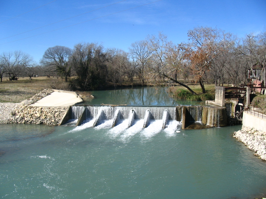 The San Marcos River at Luling, Texas